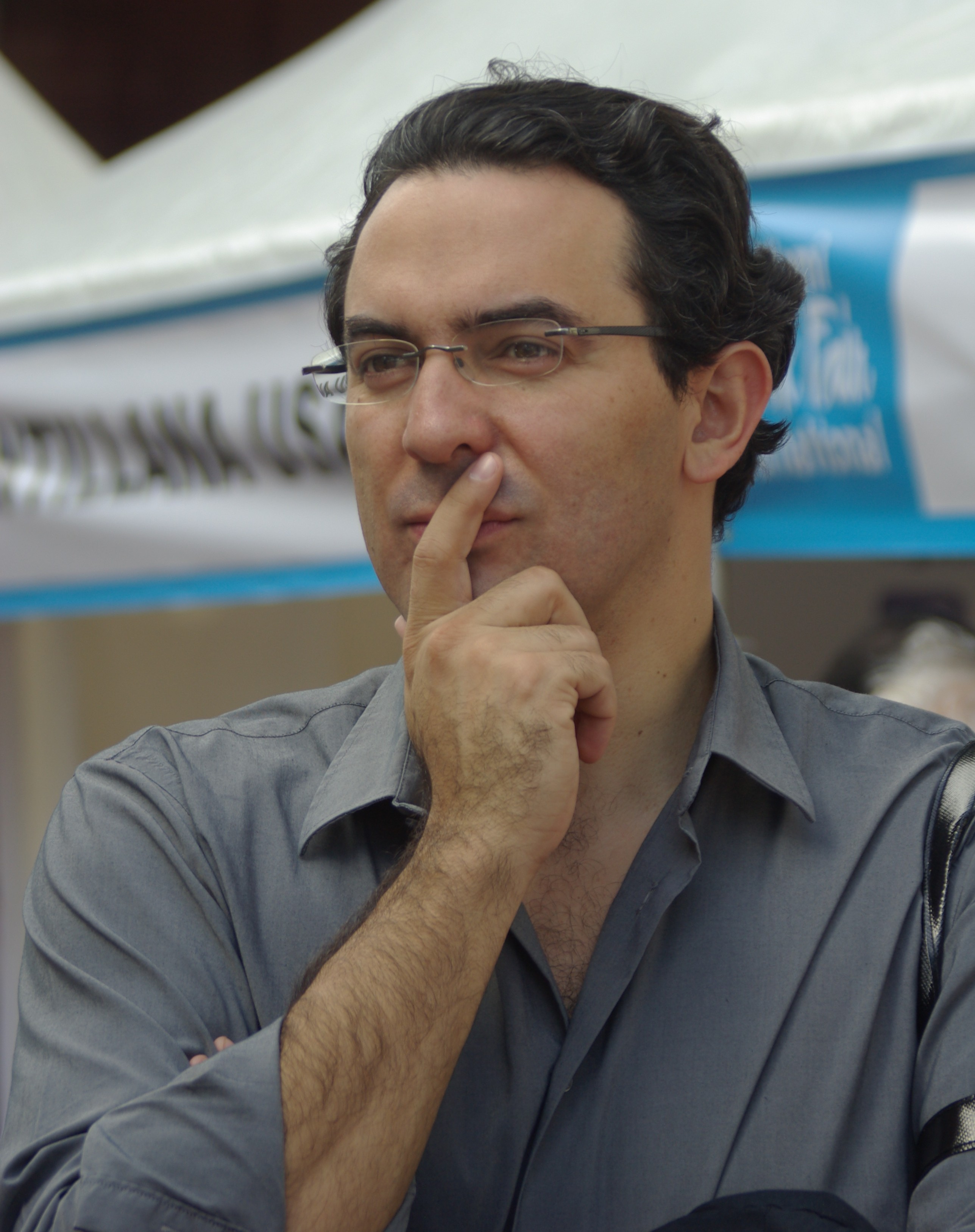 Colombian writer Juan Gabriel Vasquez at the 2011 Miami Book Fair International